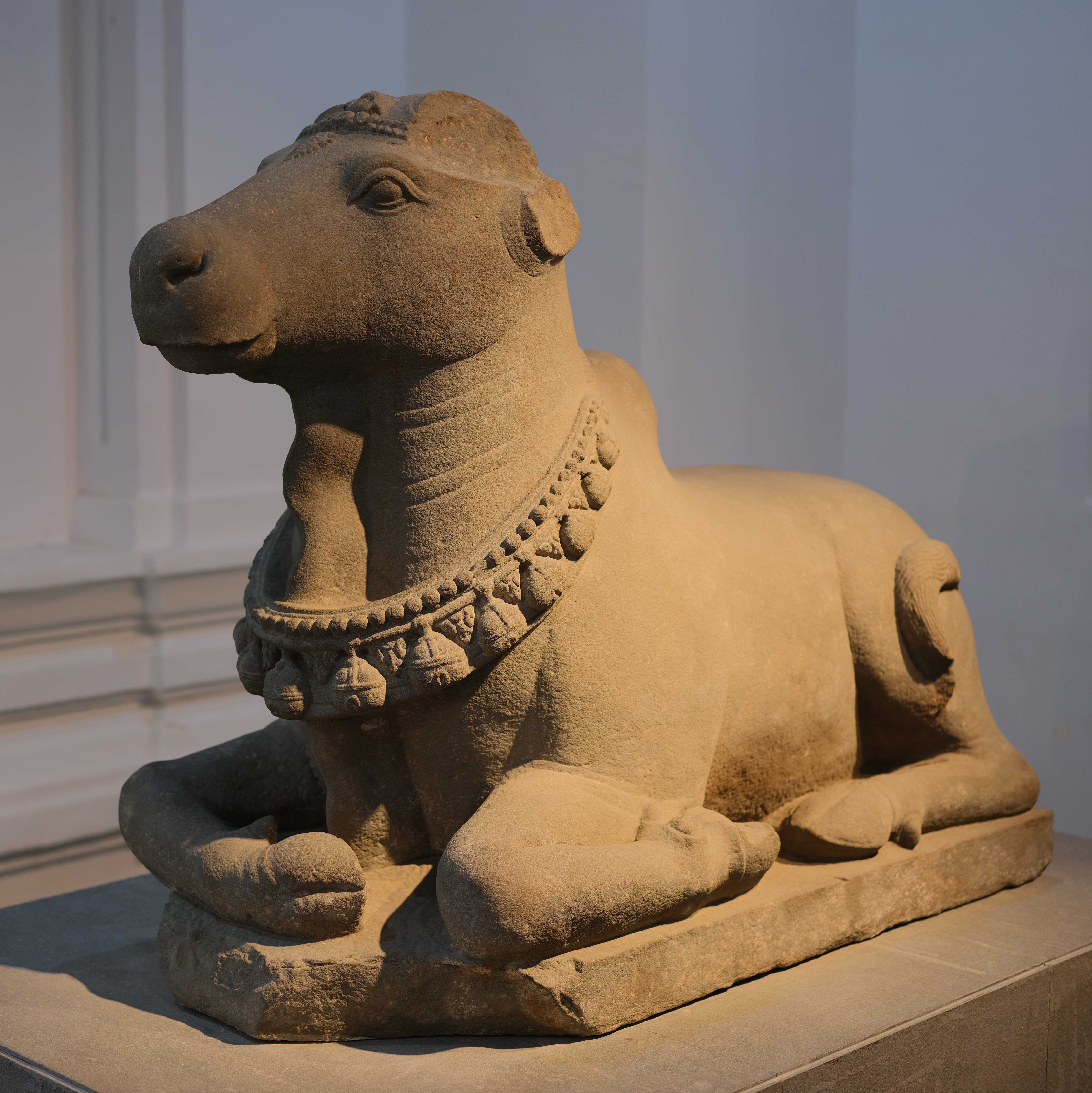 The Holy Bull Nandin (Nandi), 7th-8th century, Museum of Cham Sculpture, Danang, Vietnam.